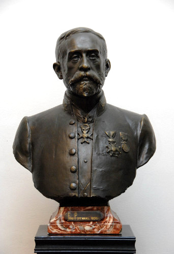 Bust of Ferdinand Portmans (1854-1938), mayor of Hasselt from 1895 to 1937